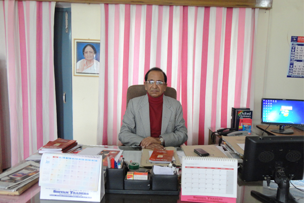 A potrait of Nadeem Adhami, Principal of Shah Faiz Public School.